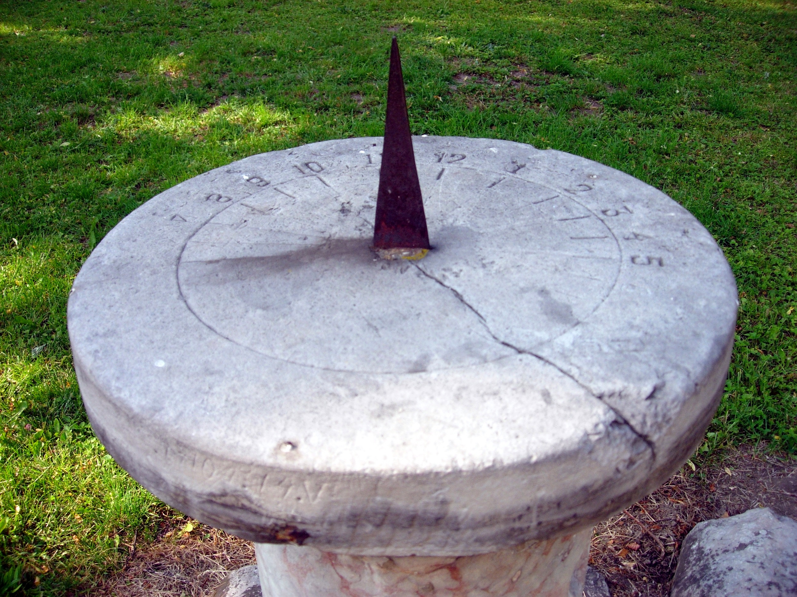 The Sundial near Saint Giles Church in Ptkanów (Poland)